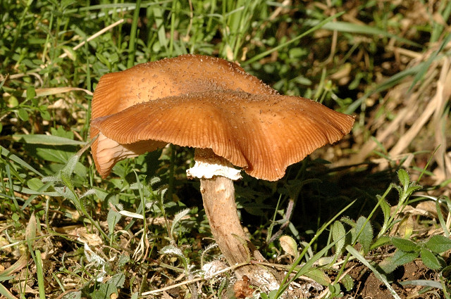 Armillaria borealis from Commanster, Belgium. If you think this is a different taxon, please contact James Lindsey.